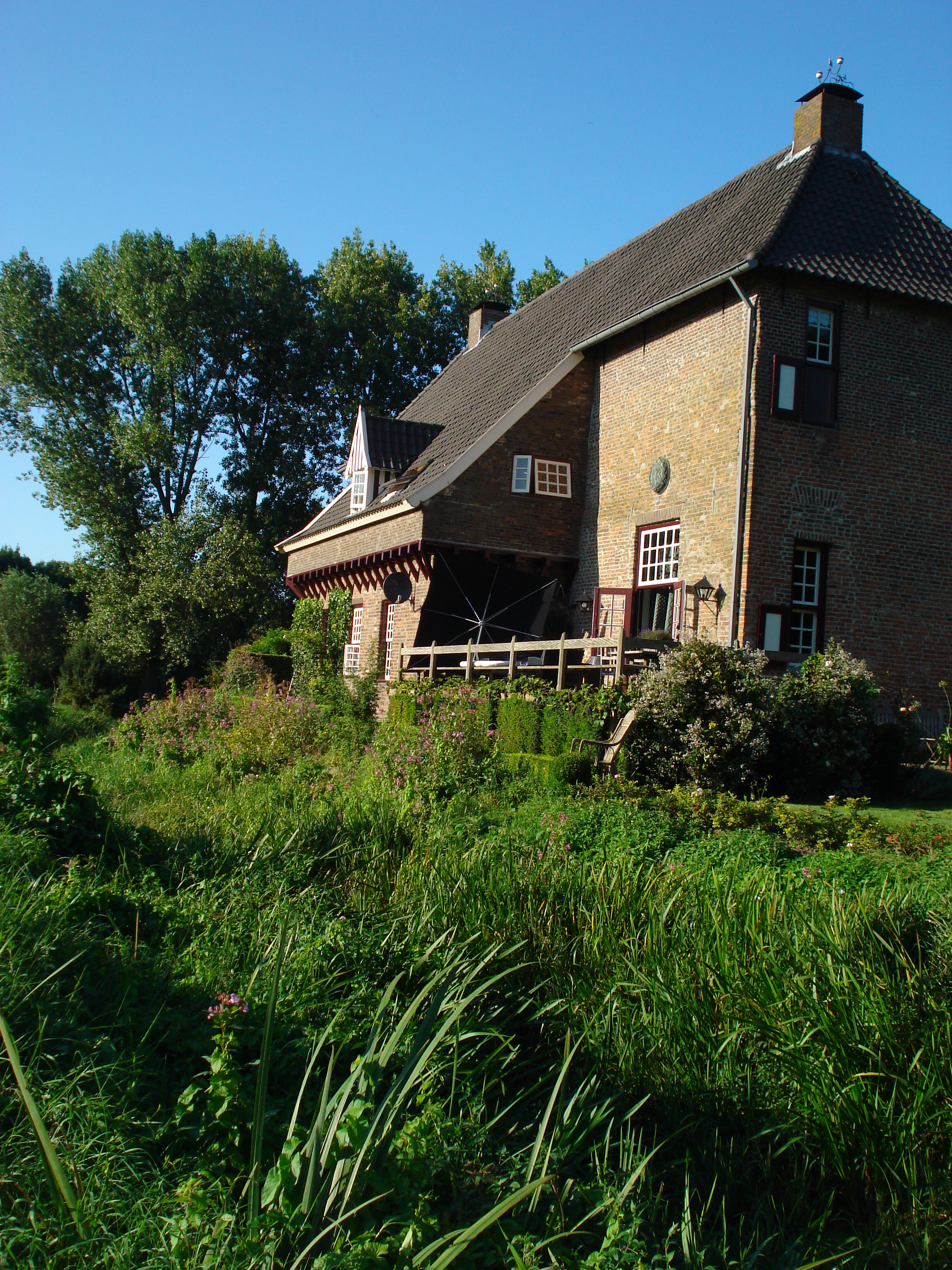 Oud-Zevenaar (Gld-NL) Havezate Camphuysen (castle) backview